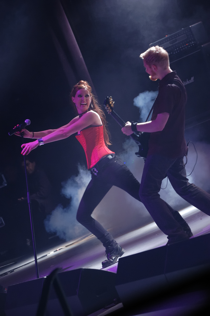 Theatre of Tragedy at Teatro Teletón, Santiago, Chile.